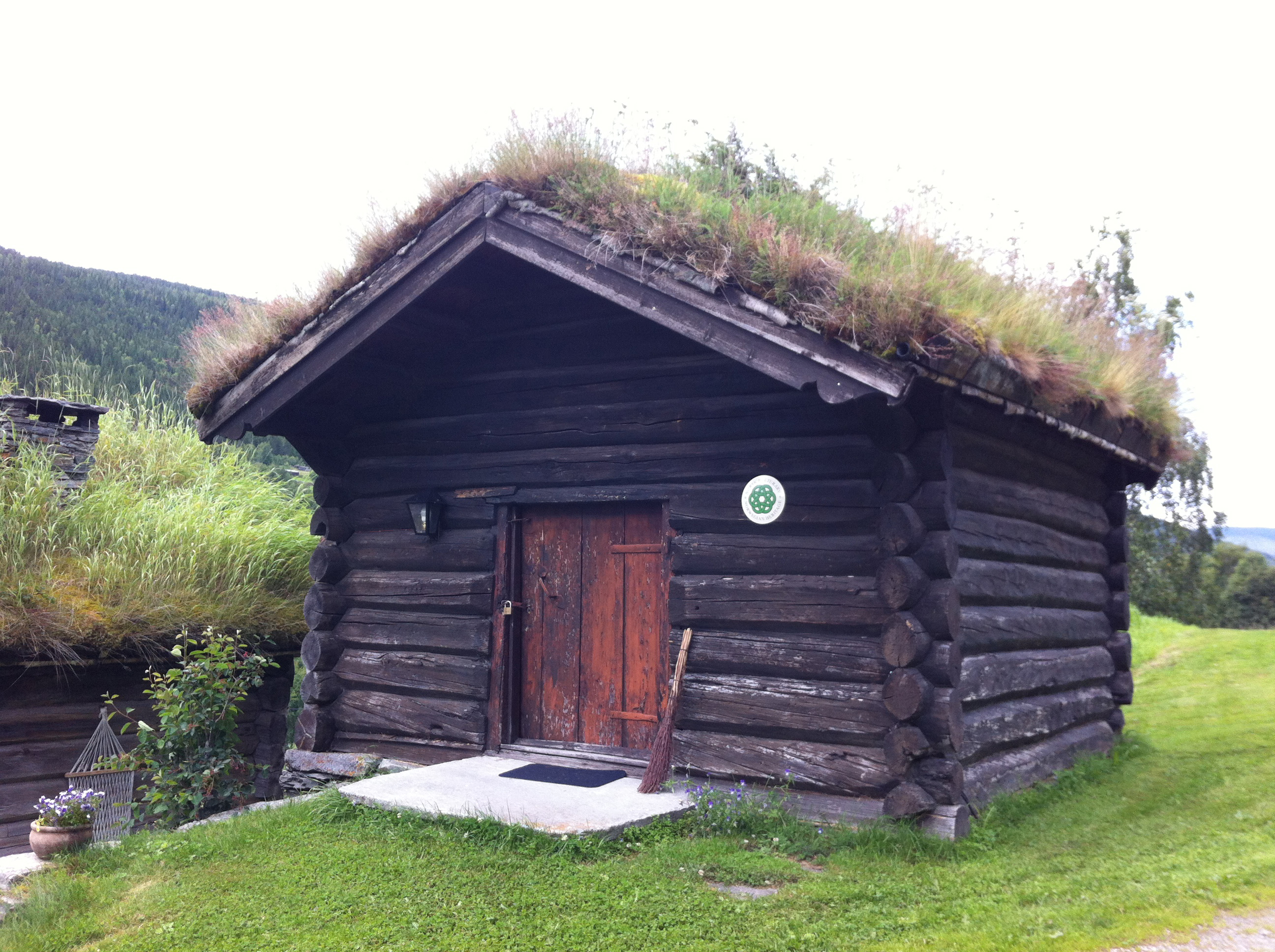 Aurbua, the house used for cold storage, at the farm Nordre Ekre, Heidal, Norway Norsk (bokmål): Aurbua, "kjølerommet" på gården Nordre Ekre, Heidal, Sel kommune